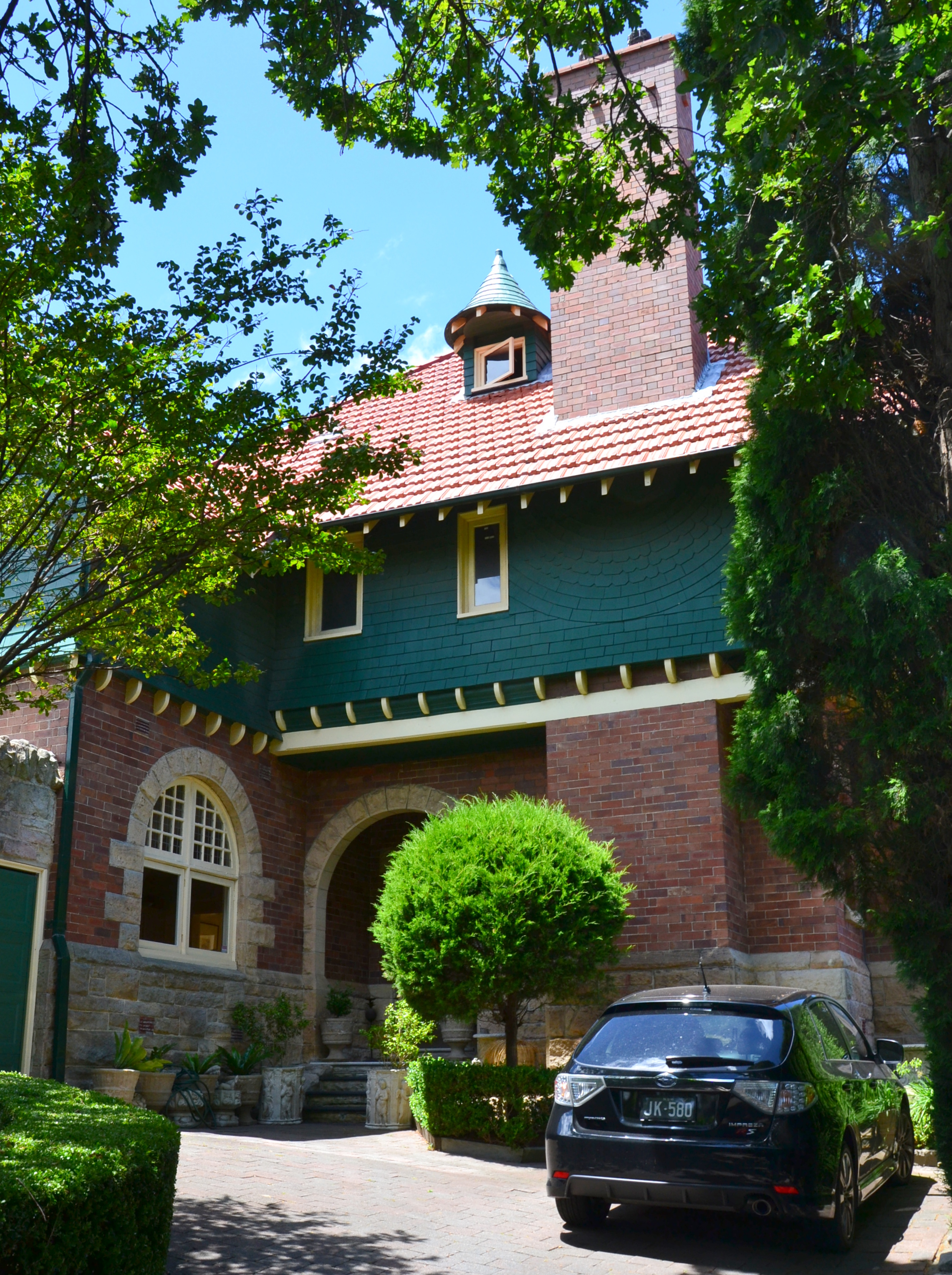 Hollowforth, Neutral Bay, Sydney